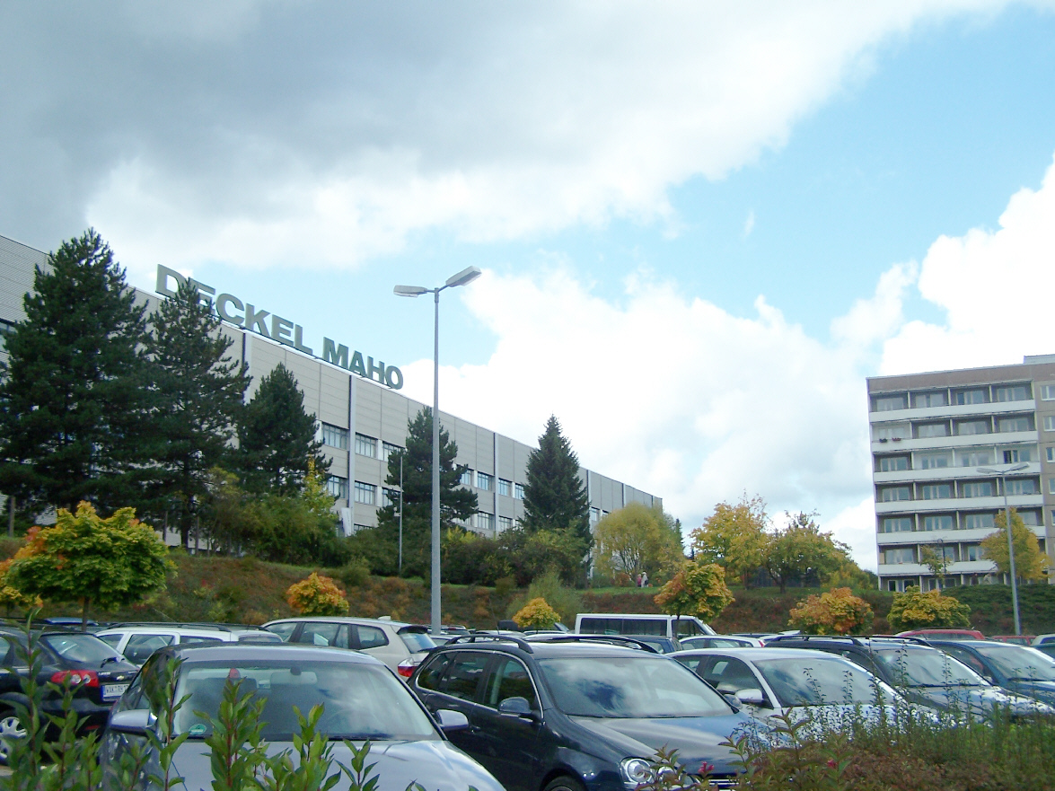 The DECKEL MAHO Seebach GmbH factory - main building in Seebach.